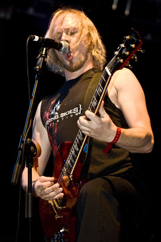 Alexander Dietz, guitarist of the metal/metalcore band Heaven Shall Burn, at Resurrection Festival 2010.